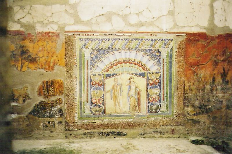 Herculaneum. Ancient Roman mosaic with Neptune and Amphitrite, on display in the "House of Neptune and Amphitrite" (# 22).